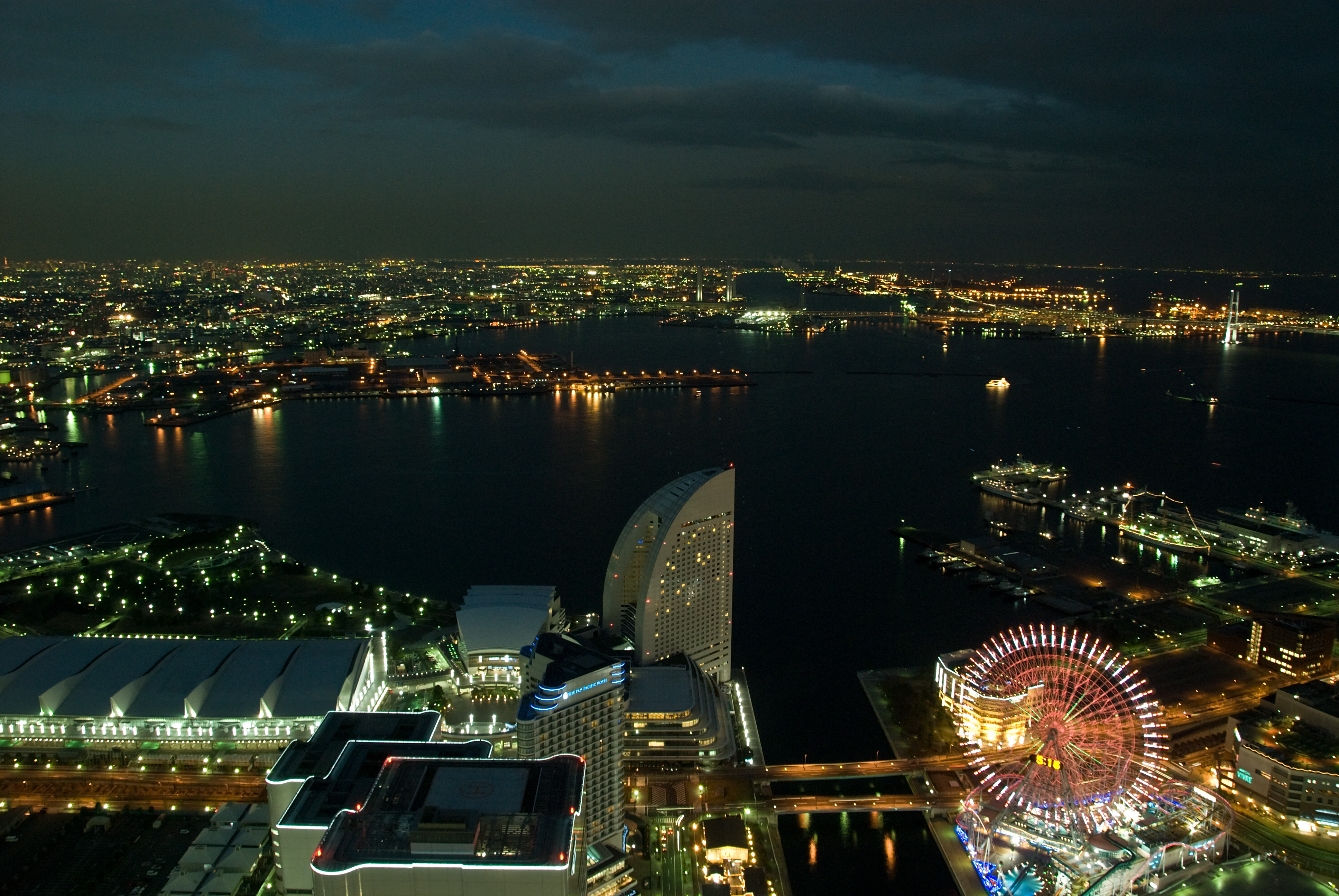 Minato Mirai from the Landmark Tower